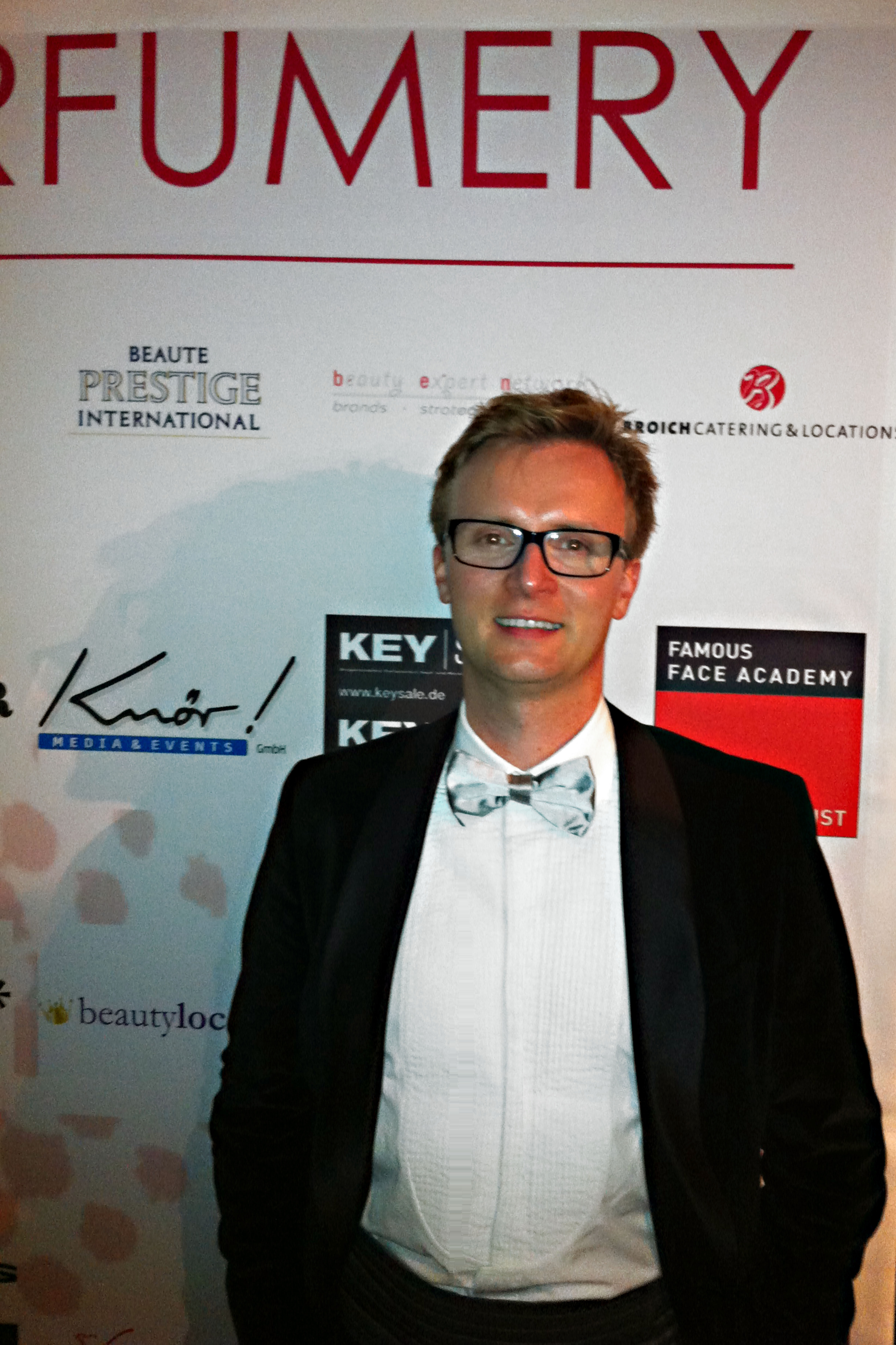 Austrian Actor, Singer and Director Christian Stadlhofer